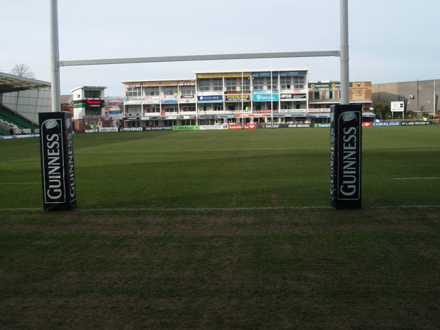 Surridge Pavilion Northampton RFC